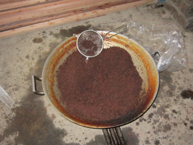 Roasted Latik made from fresh mature coconuts grated and the coconut milk extracted.